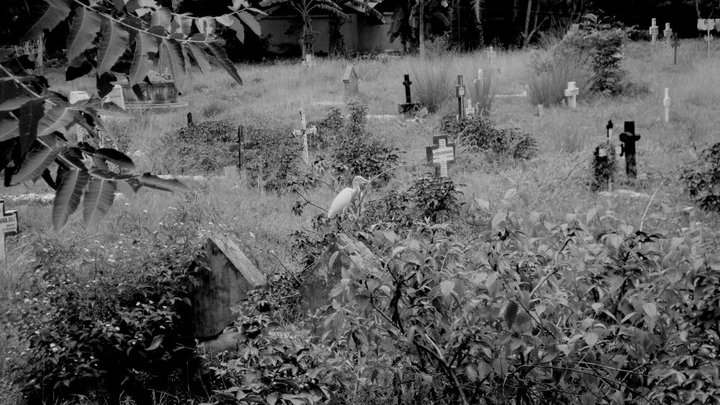 GORAKABAR_CUTTACK